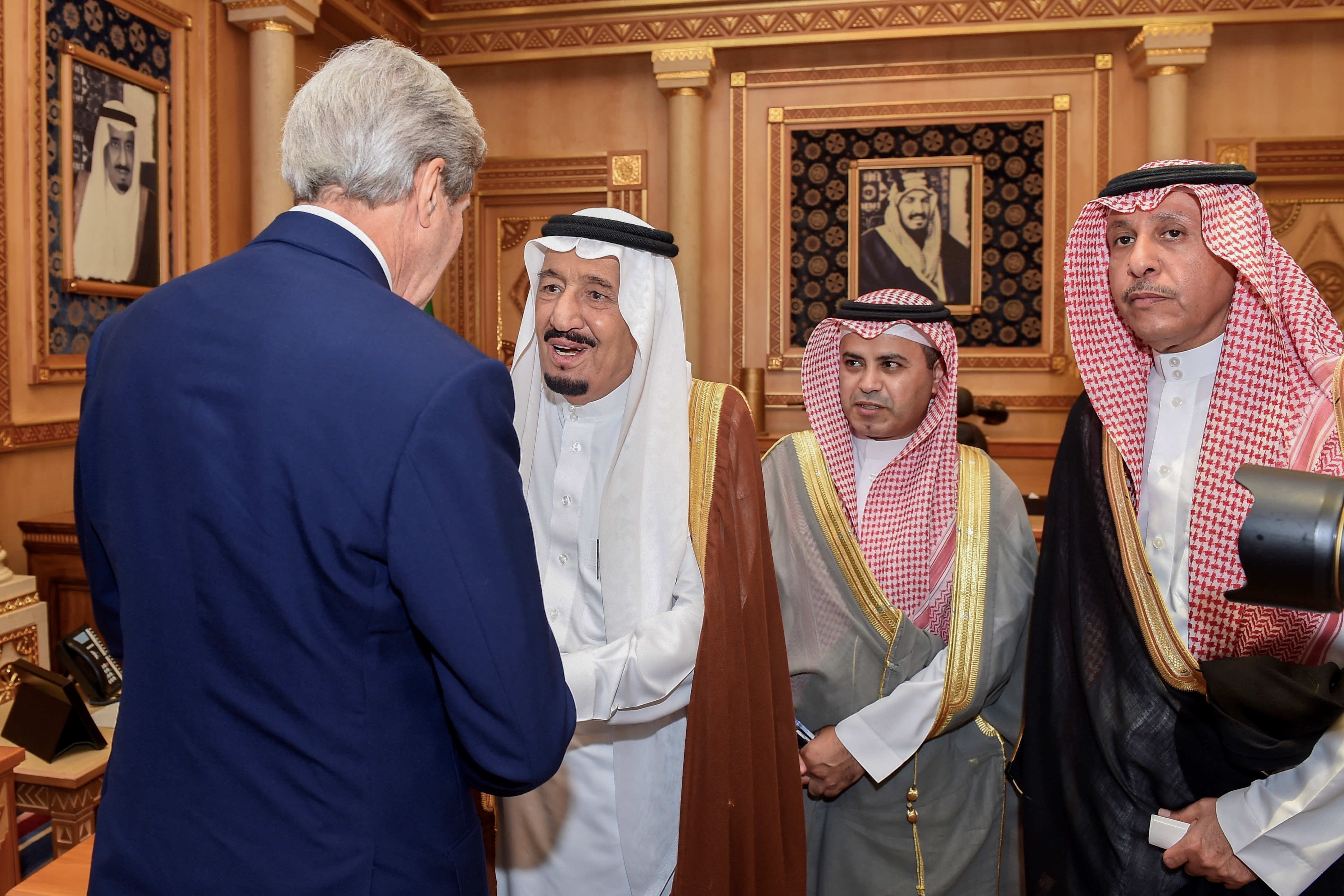 U.S. Secretary of State John Kerry shakes hands with King Salman of Saudi Arabia after arriving at Diriyah Farm outside Riyadh, Saudi Arabia, on October 24, 2015, for a bilateral meeting and a broader session with Saudi Foreign Minister Adel al-Jubeir, Crown Prince Mohammed bin Nayif, and Deputy Crown Prince Mohammed bin Salman. [State Department photo/ Public Domain]